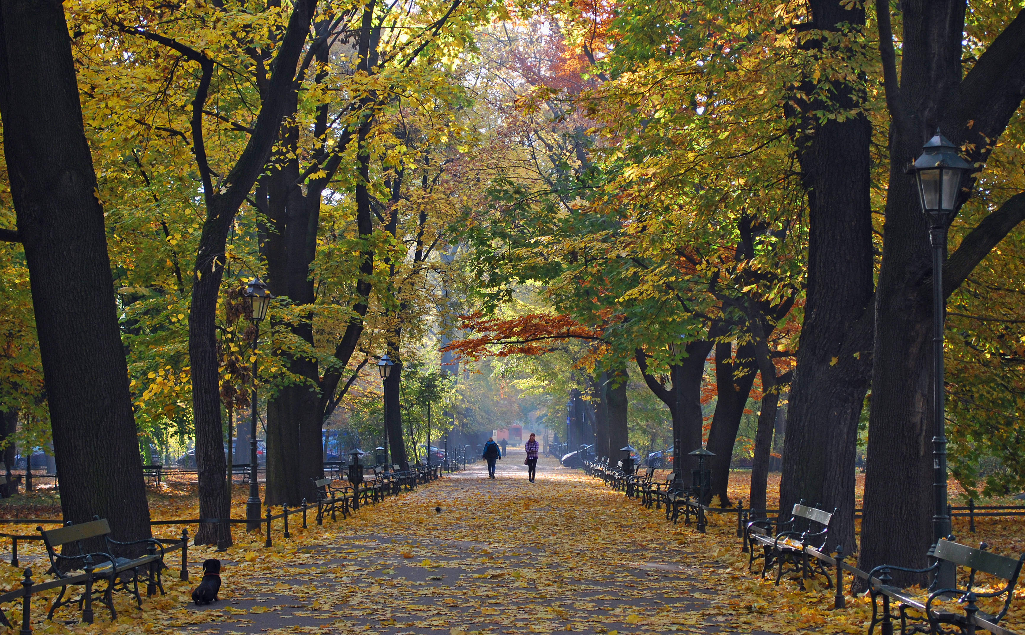 Planty Park, autumn, Old Town, Krakow, Poland